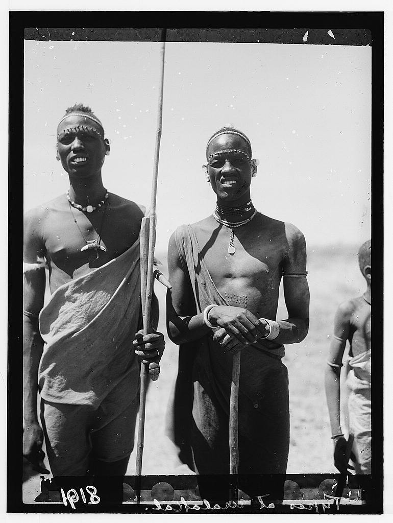 Sudan. Malakal. Two Shiluki types